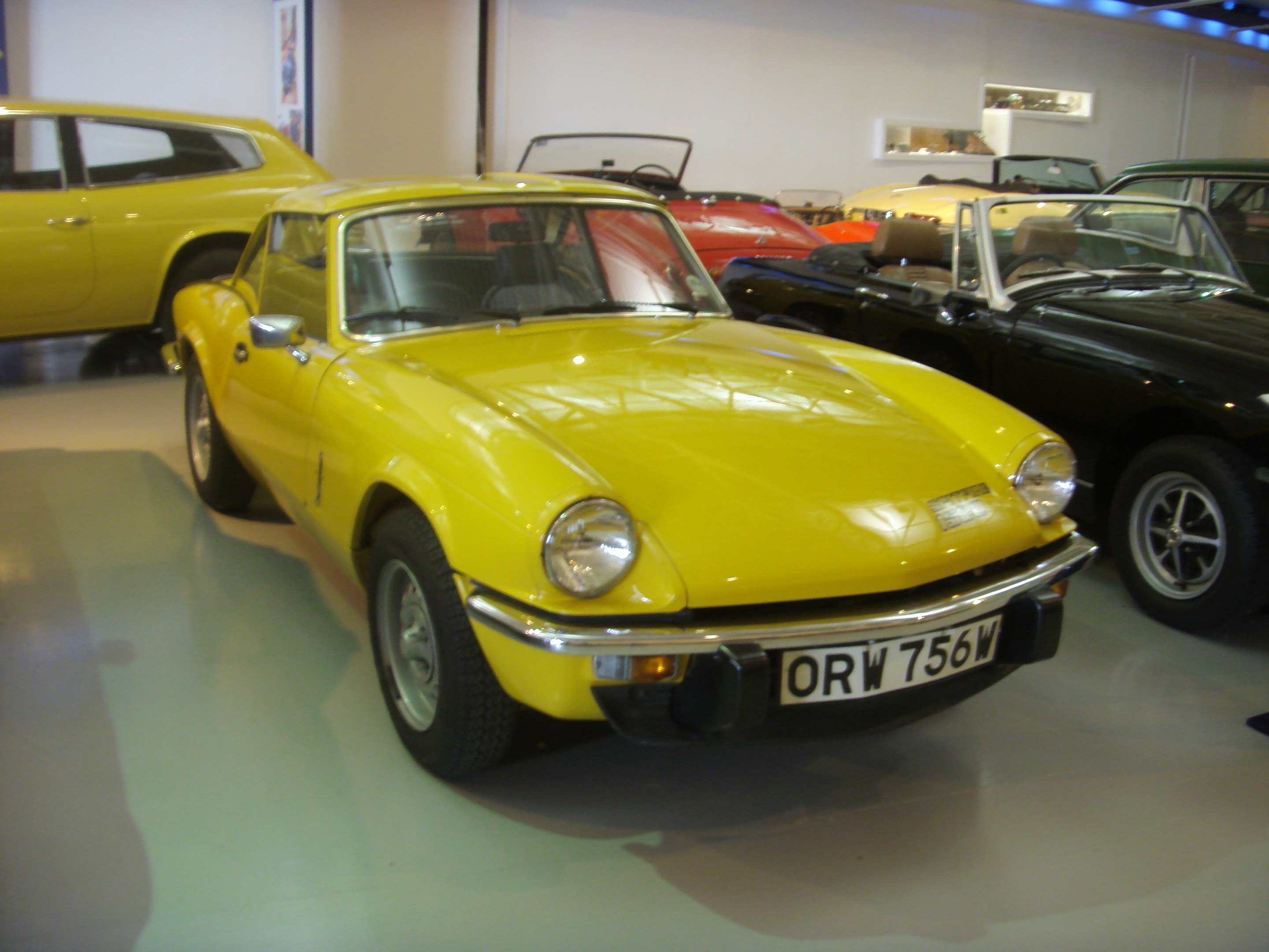 The last Spitfire off the line.